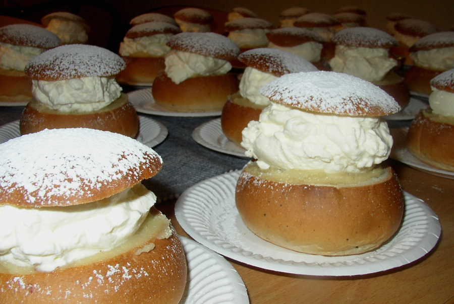 We had a meeting in our association tonight, coffee and Semlor were on the program! Yumm... Bitte, our chairman made them!